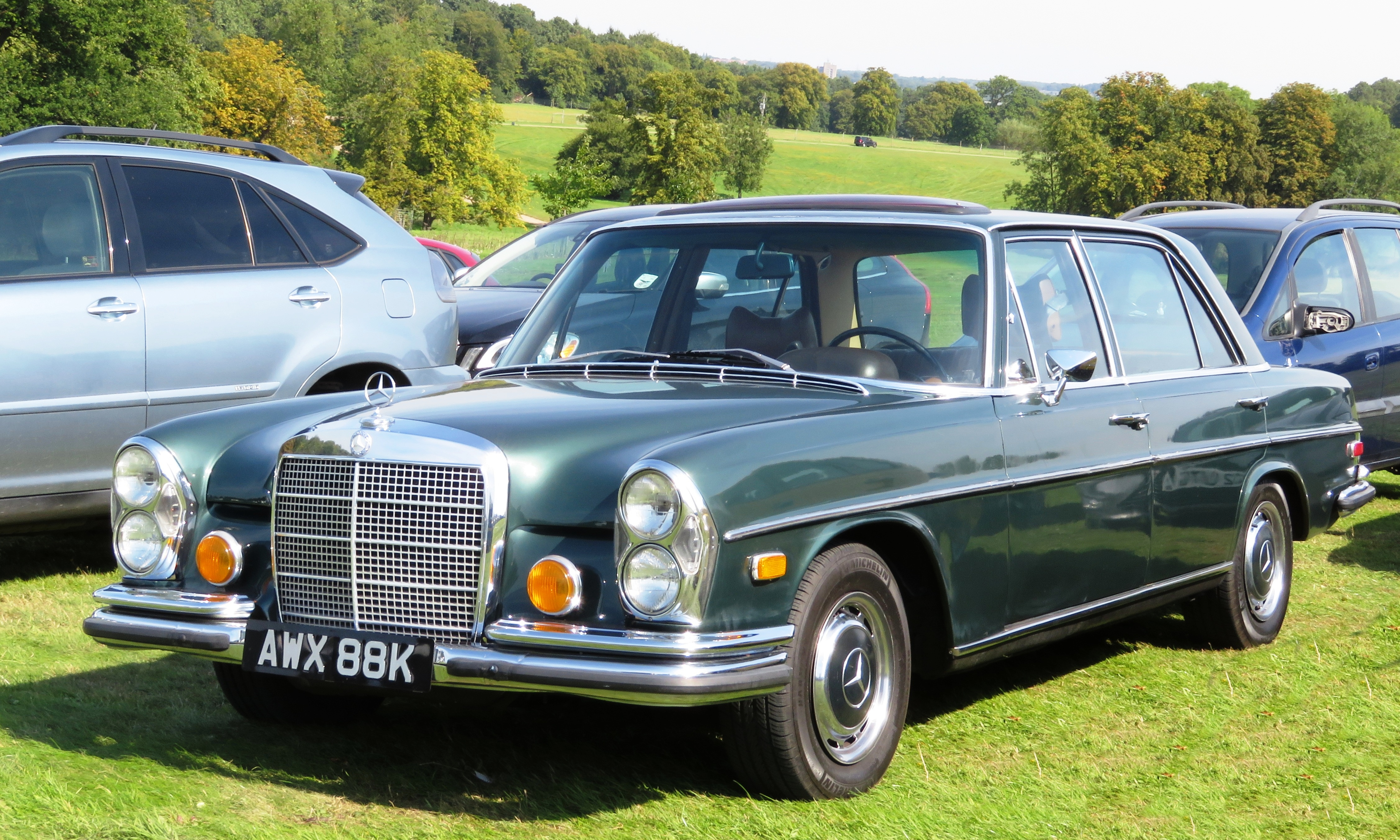 Mercedes-Benz 300SEL 4.5 (1972)